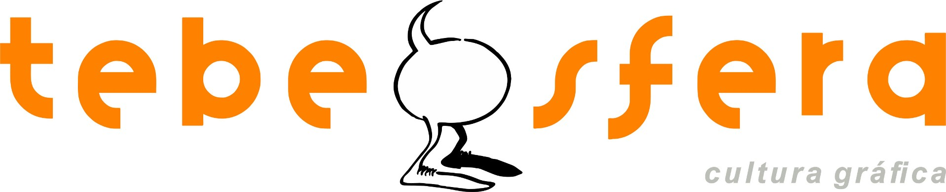 Tebeosfera Logo